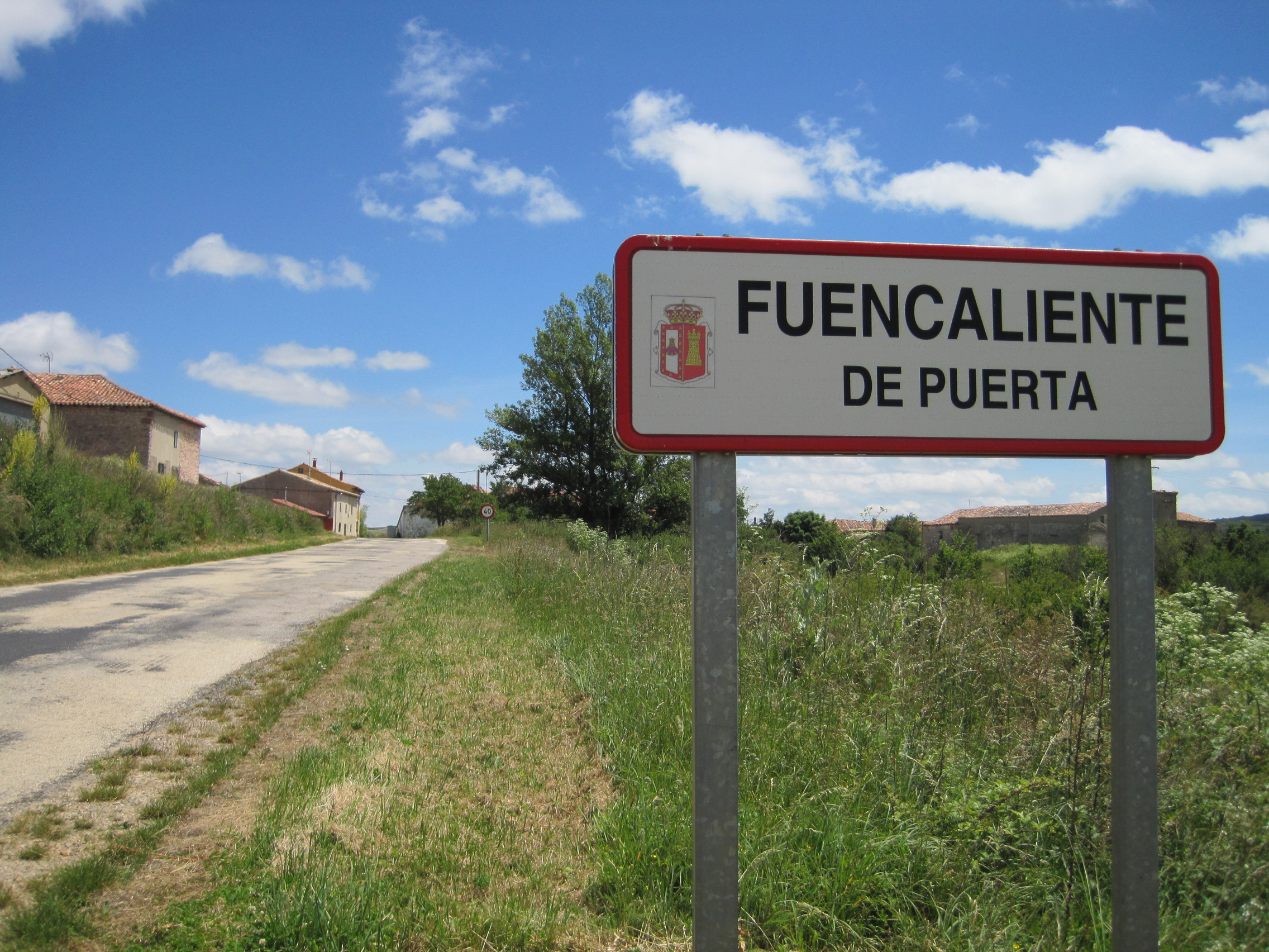 entry sign